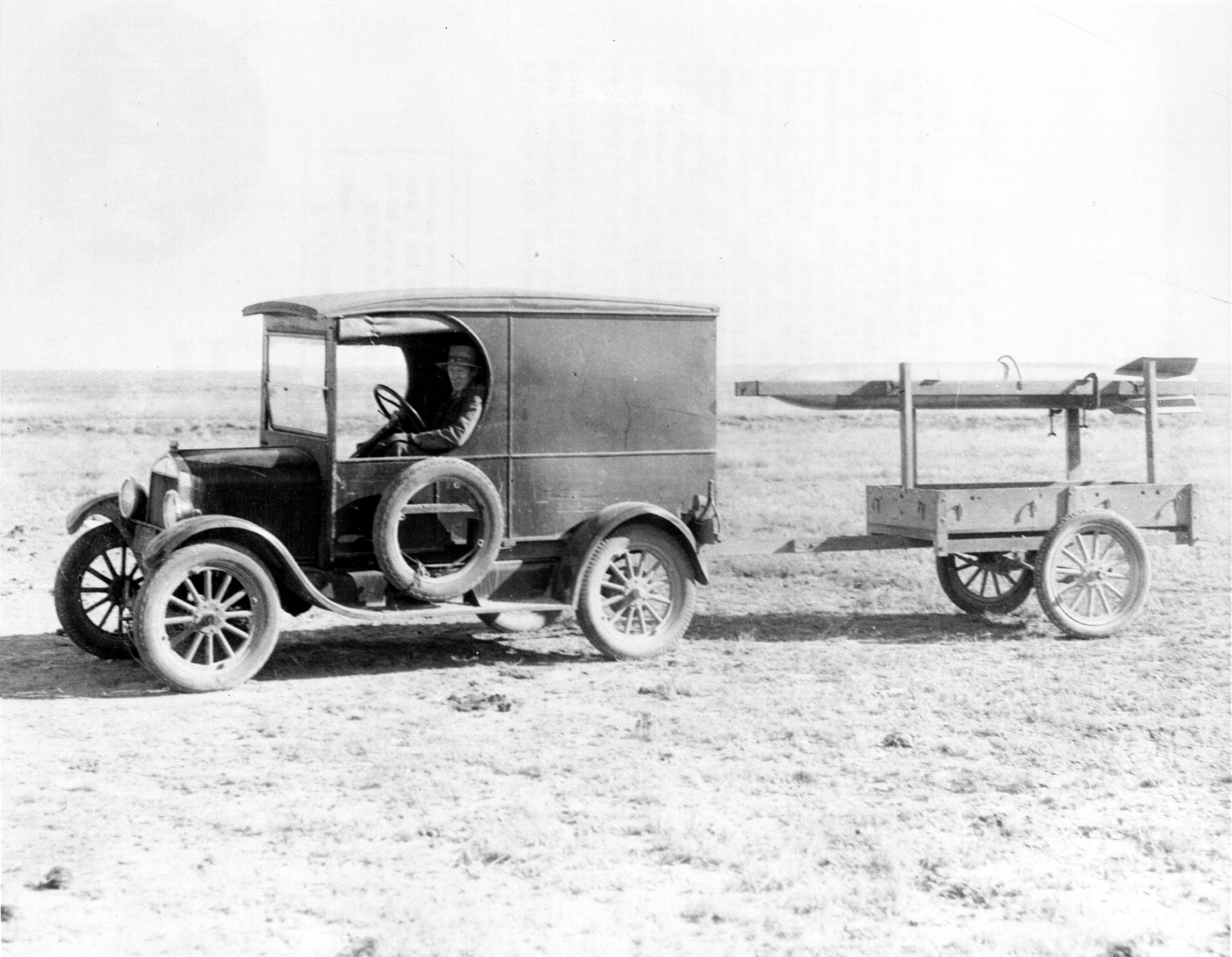 Dr. Robert H. Goddard tows his rocket to the launching tower behind a Model A Ford truck, 15 miles northwest of Roswell. 1930-1932. Dr. Goddard has been recognized as the "Father of American Rocketry" and as one of three pioneers in the theoretical exploration of space. Robert Hutchings Goddard was born in Worcester, Massachusetts, on October 15, 1882. He was a theoretical scientist as well as a practical engineer. His dream was the conquest of the upper atmosphere and ultimately space through the use of rocket propulsion. Dr. Goddard, who died in 1945, was probably as responsible for the dawning of the Space Age as the Wright Brothers were for the begining of the Air Age. Yet his work attracted little serious attention during his lifetime. When the United States began to prepare for the conquest of space in the 1950's, American rocket scientists began to recognize the debt owed to the New England professor. They discovered that it was virtually impossible to construct a rocket or launch a satellite without acknowledging the work of Dr. Goddard. This great legacy was covered by more than 200 patents, many of which were issued after his death.